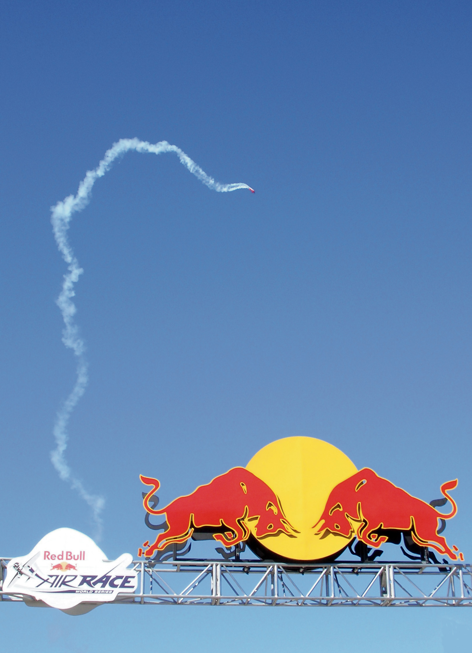 Red Bull Air Race, San Francisco